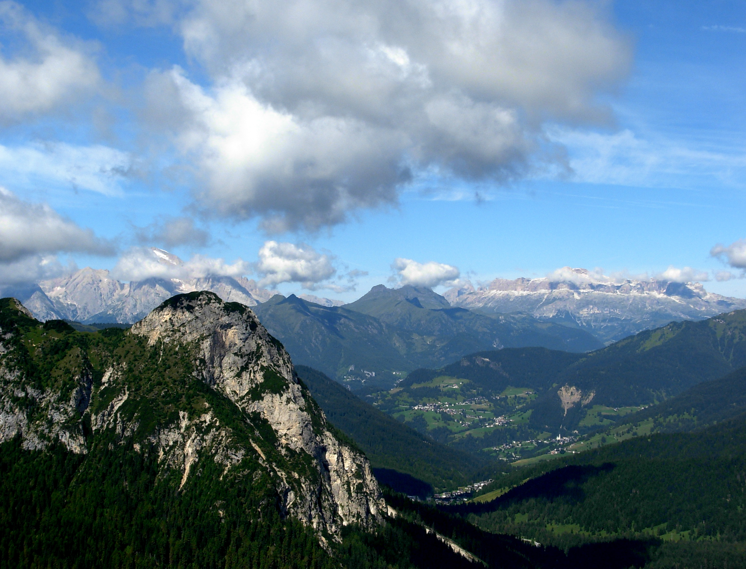 Val Fiorentina